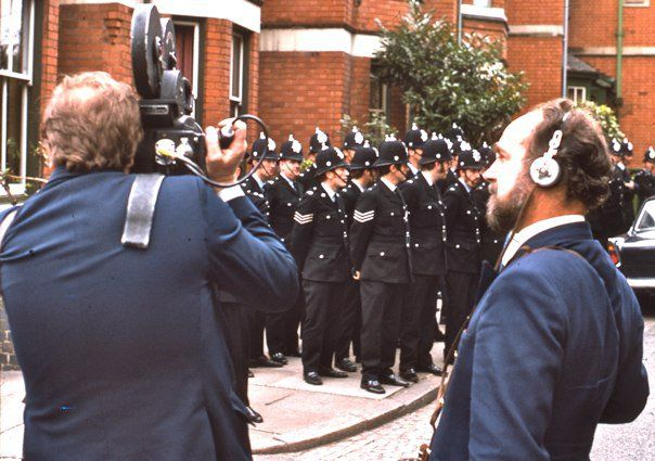 Cameraman and soundman film police in Leicester. The police are gathered on the steps of a building in preparation for a demonstration march against racialism, August 24, 1974. Other information Photo by George Garrigues.